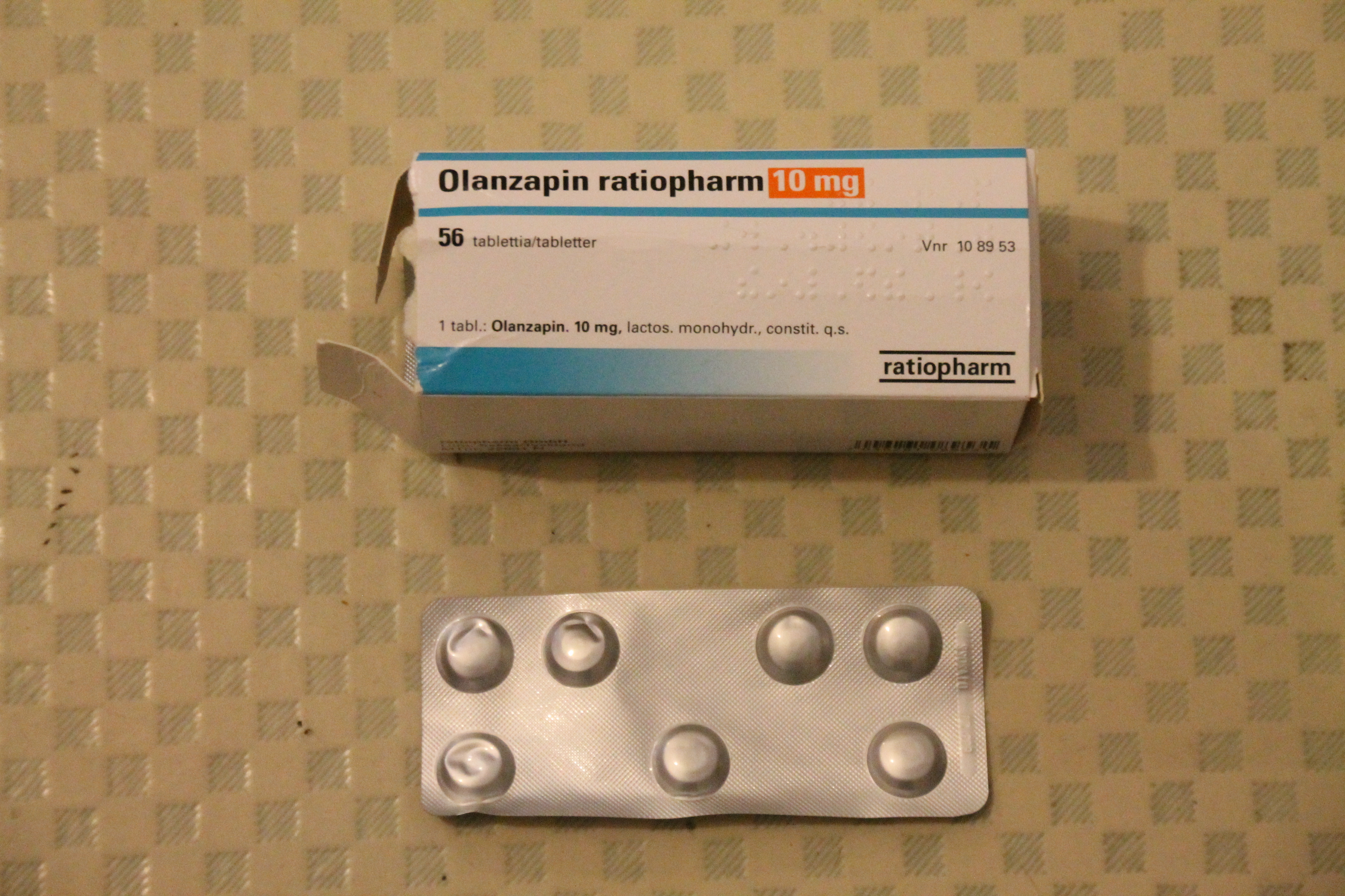 Olanzapine 10mg -package.